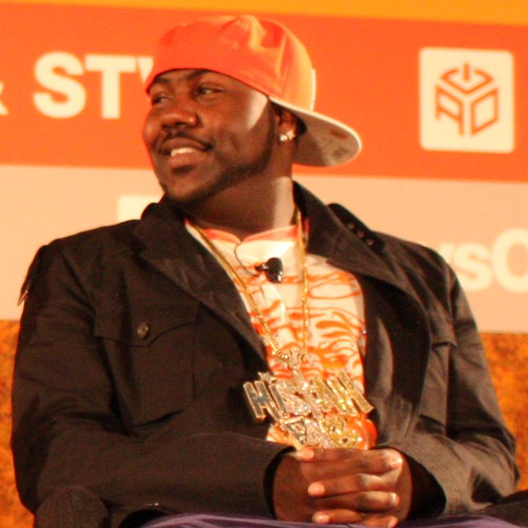 Mistah F.A.B., cropped from original image. (CC) Brian Solis, and .